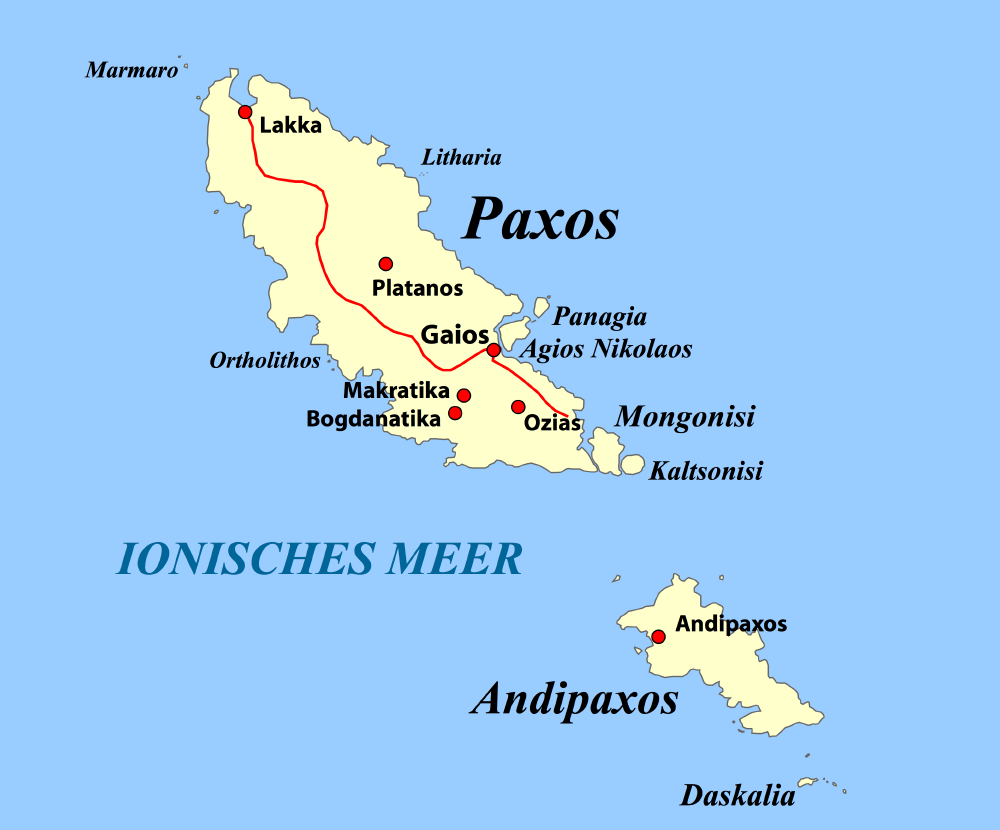 Paxi (Παξοί), Greece (German)